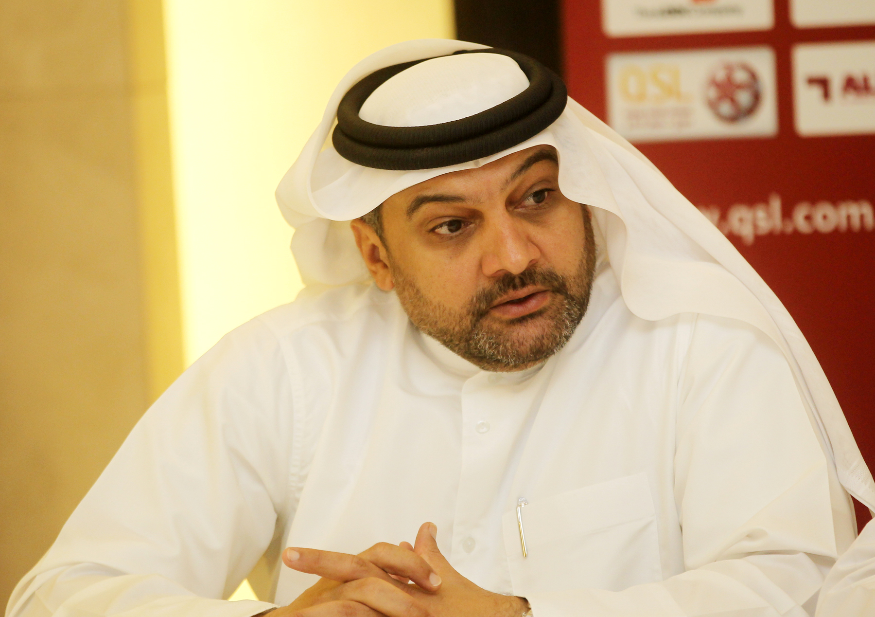 Qatar Stars League's Deputy CEO Hani Taleb Ballan during a Press conference in Doha. Picture by Mohan